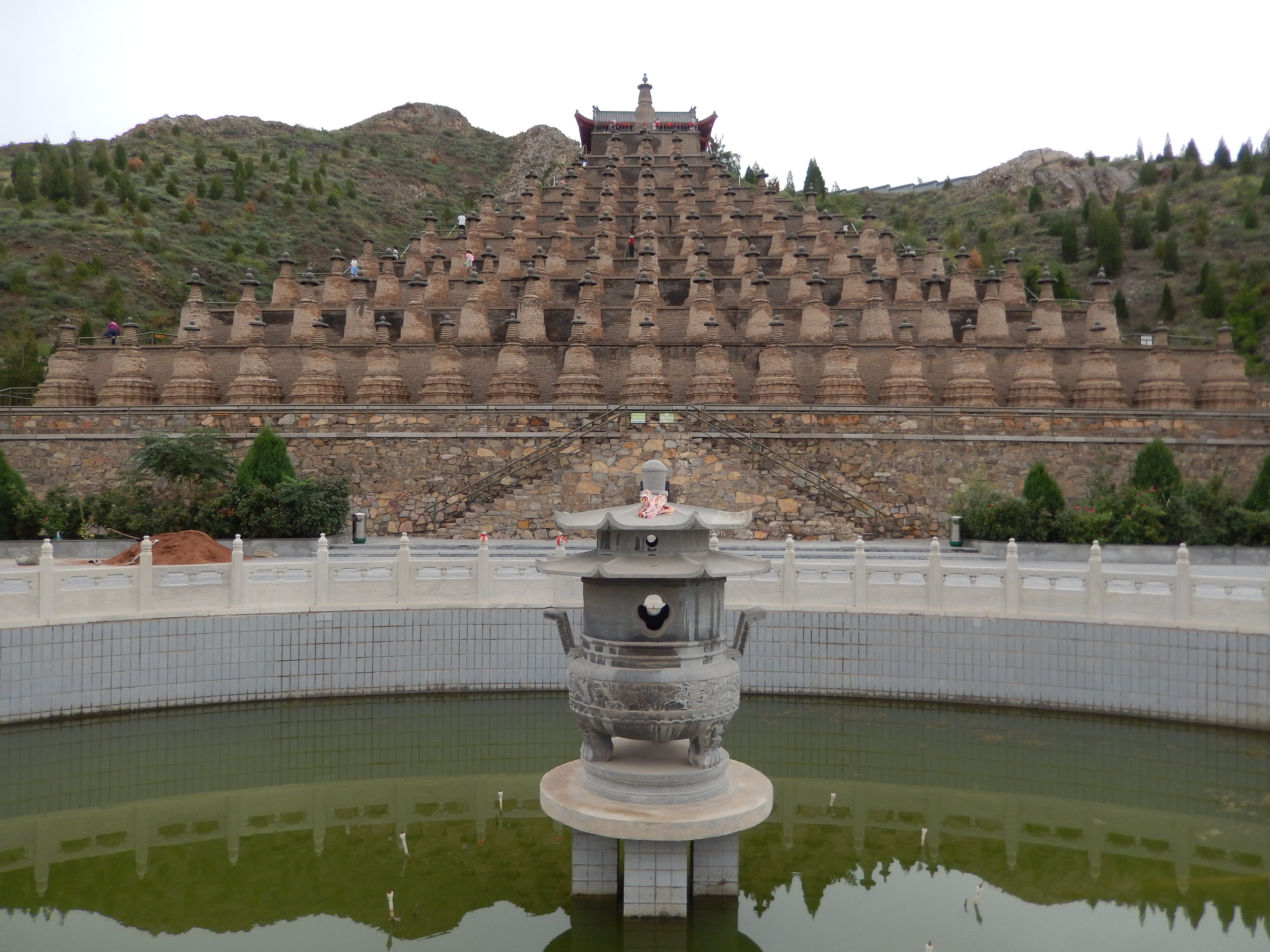 108 Buddhist stupas at Qingtongxia, Ningxia, China.